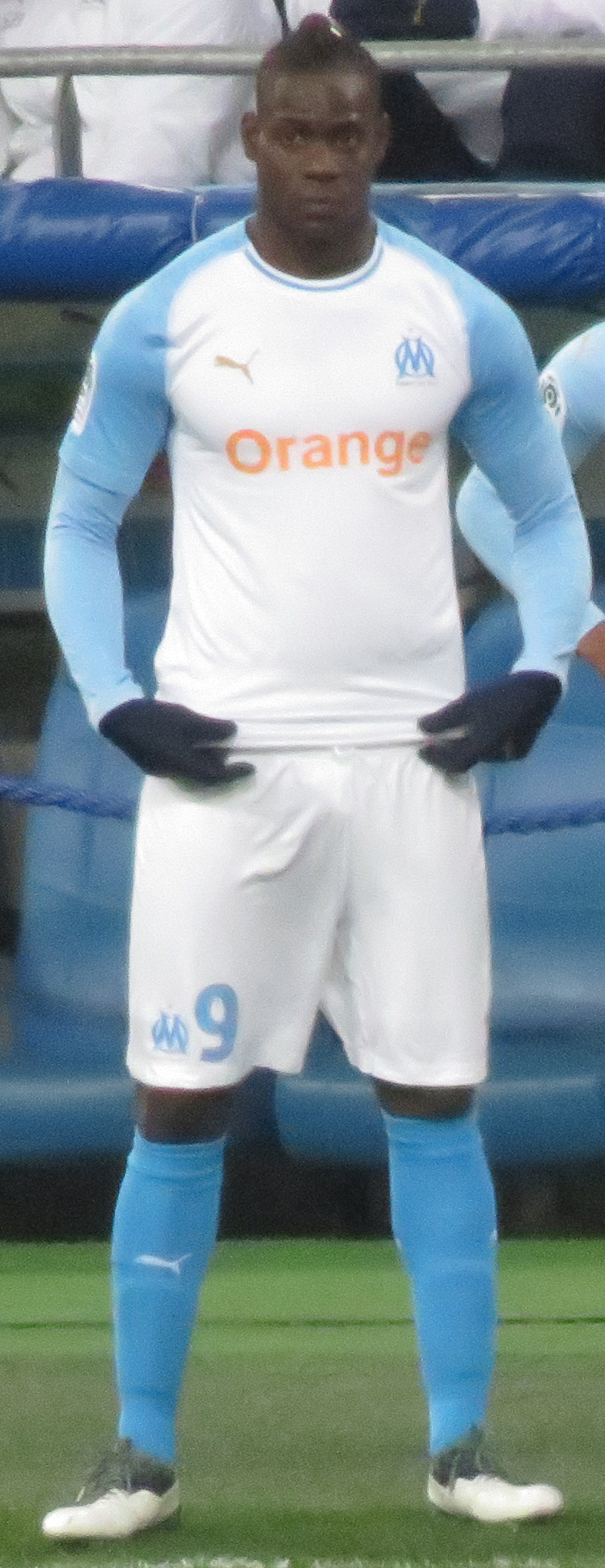 Mario Balotelli before entering the game and making his Olympique de Marseille debut in the Lille OSC match on Friday, January 26, 2019